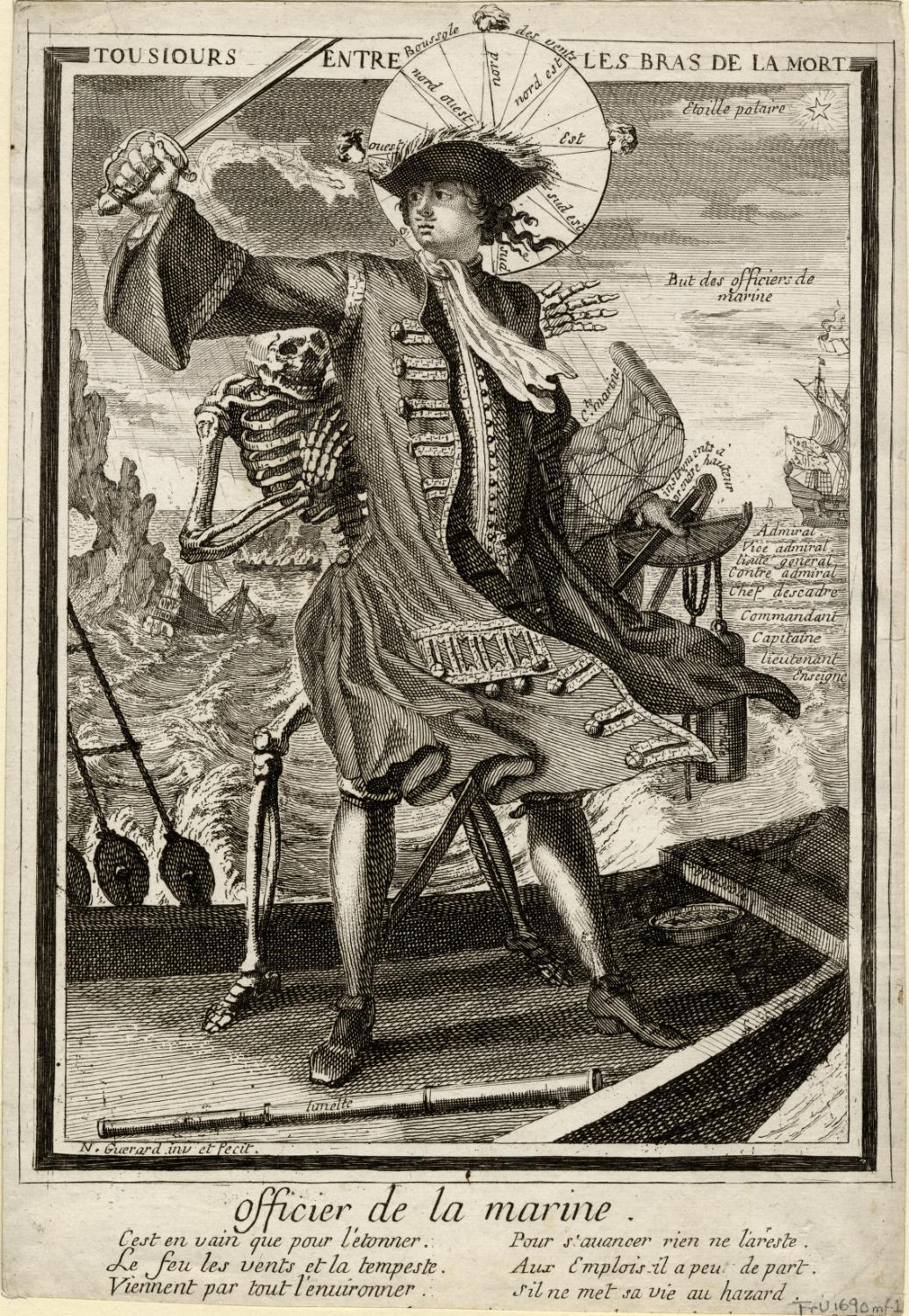 Allegorical engraving on the naval officers, circa 1700. "Always in the arms of death"